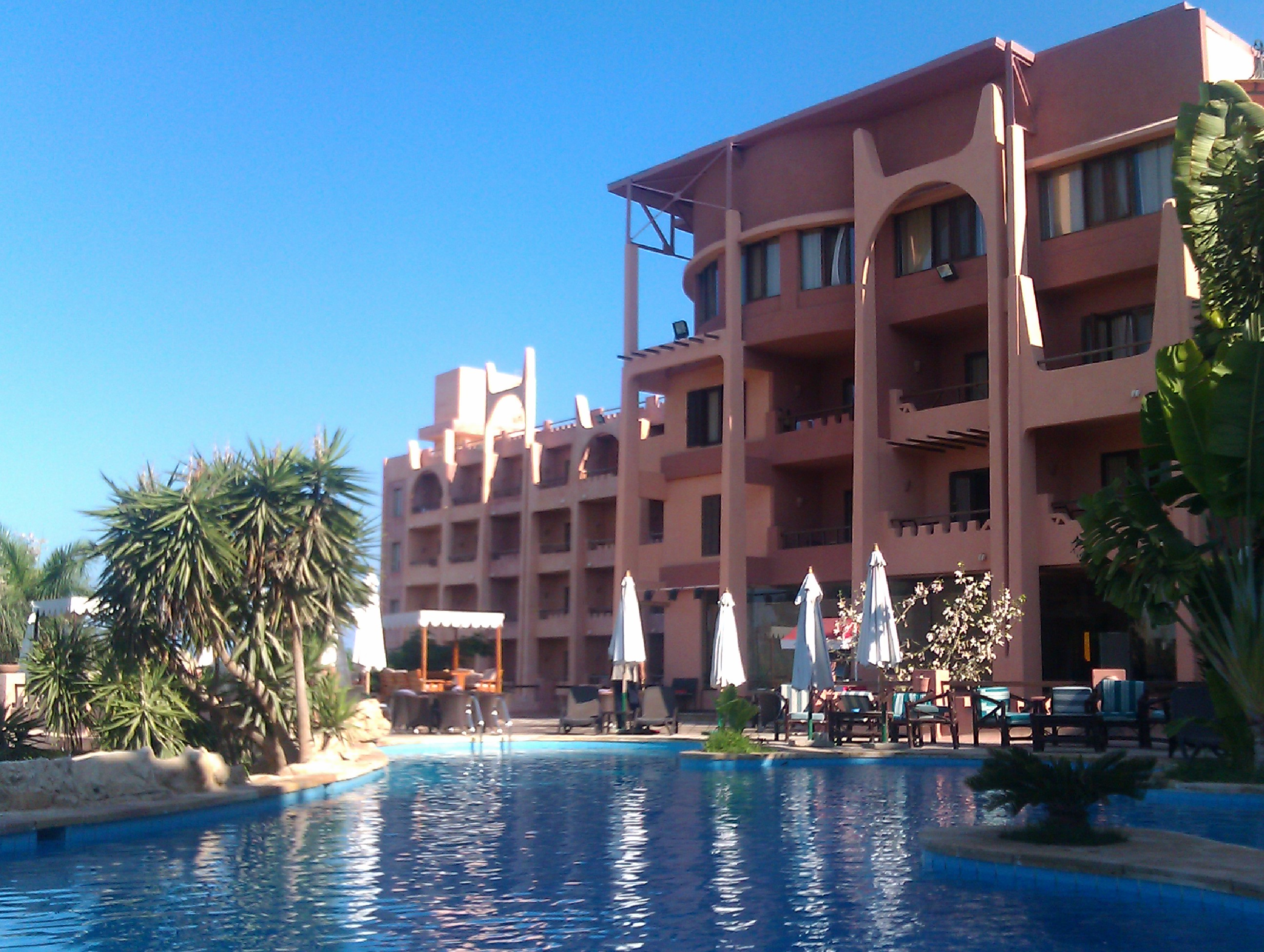 The Africana Hotel at Lake Mariout, northern Egypt.